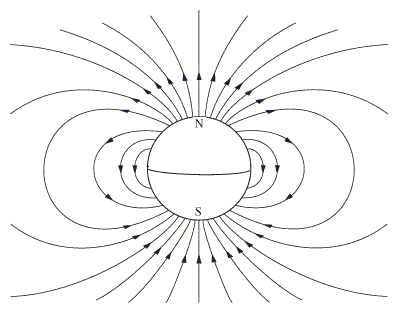 a corrected version of image:Dipole_field.jpg (reversed field line arrows). That picture describe the megnetic filed fo Earth. This one describe the convention for the magnetic poles of magnets.